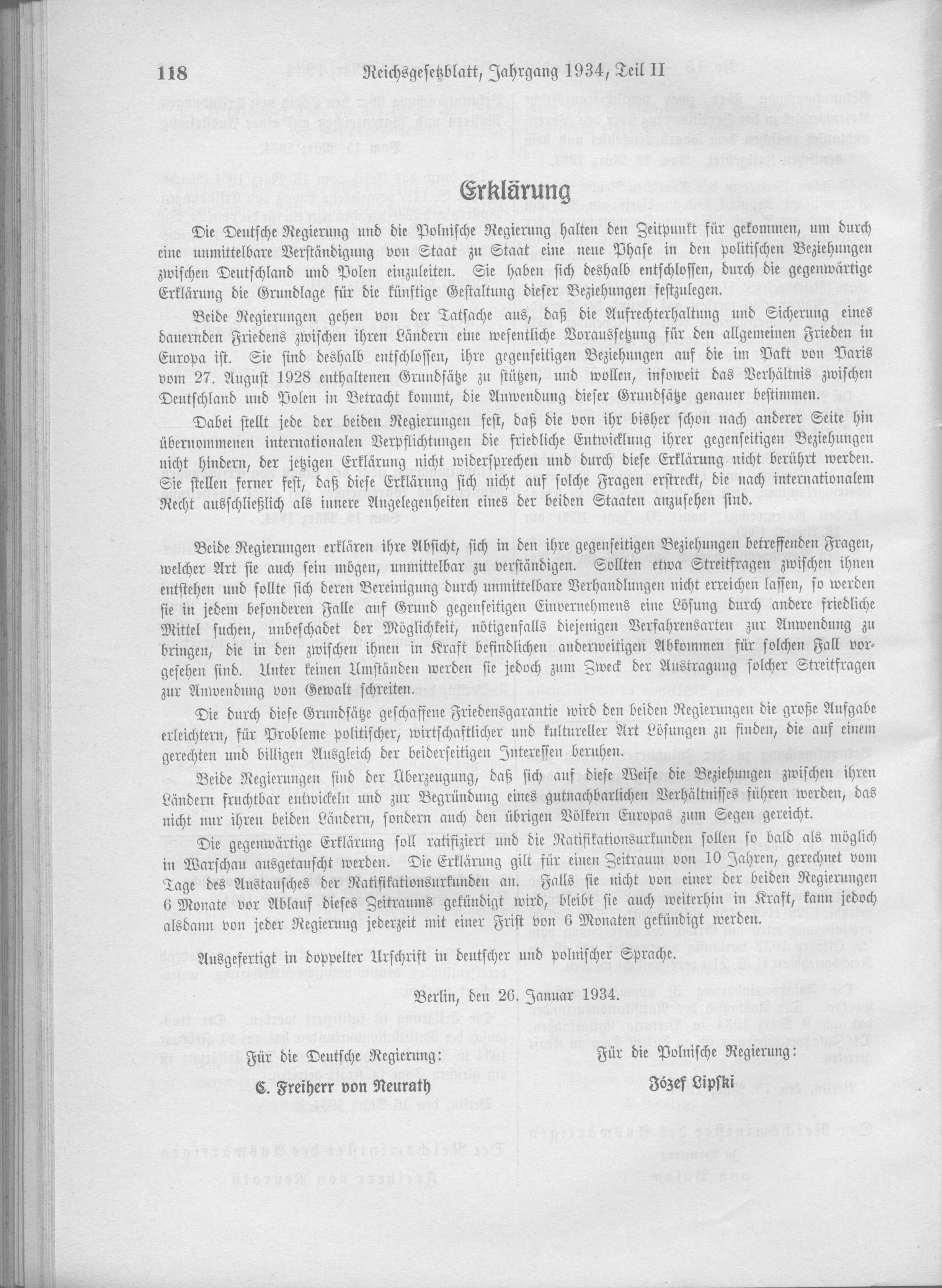 Scan from the Imperial Law Gazette of Germany, 1934, part 2